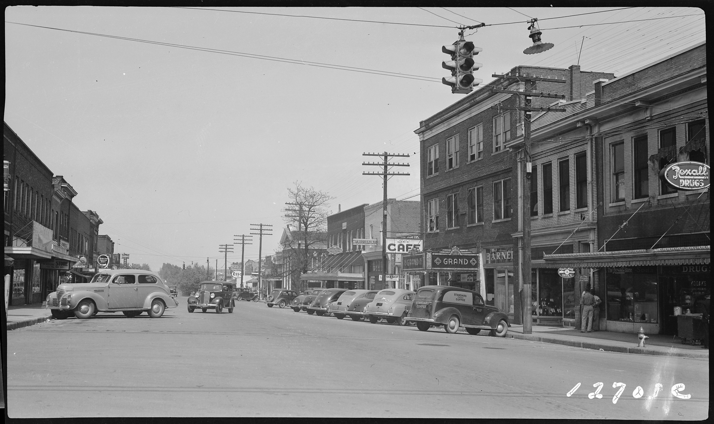 General notes: The business section (US Hwy. 11) of Lenoir City, Tennessee.